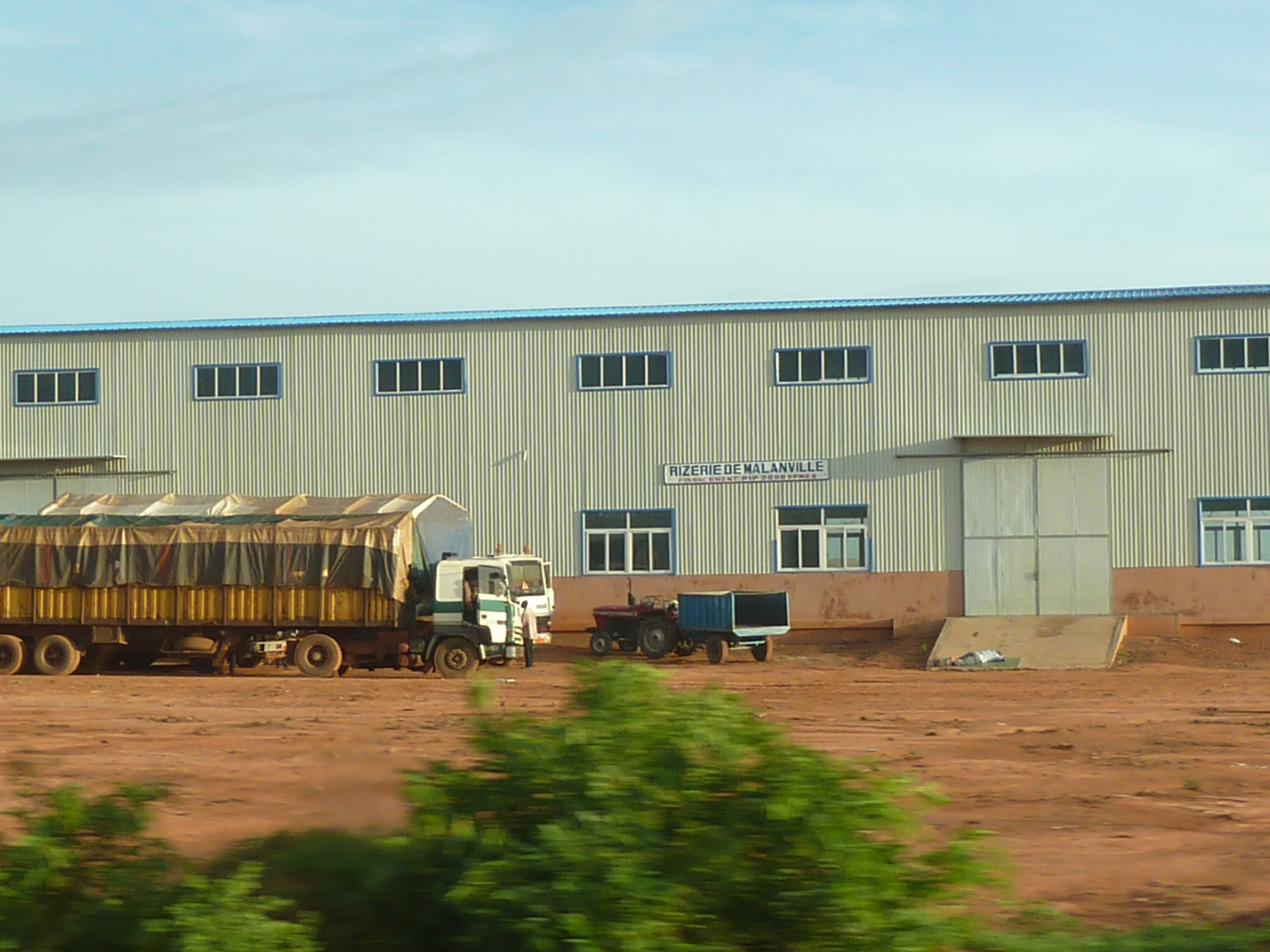 Riziere in Malanville / Rice milling factory in Malanville